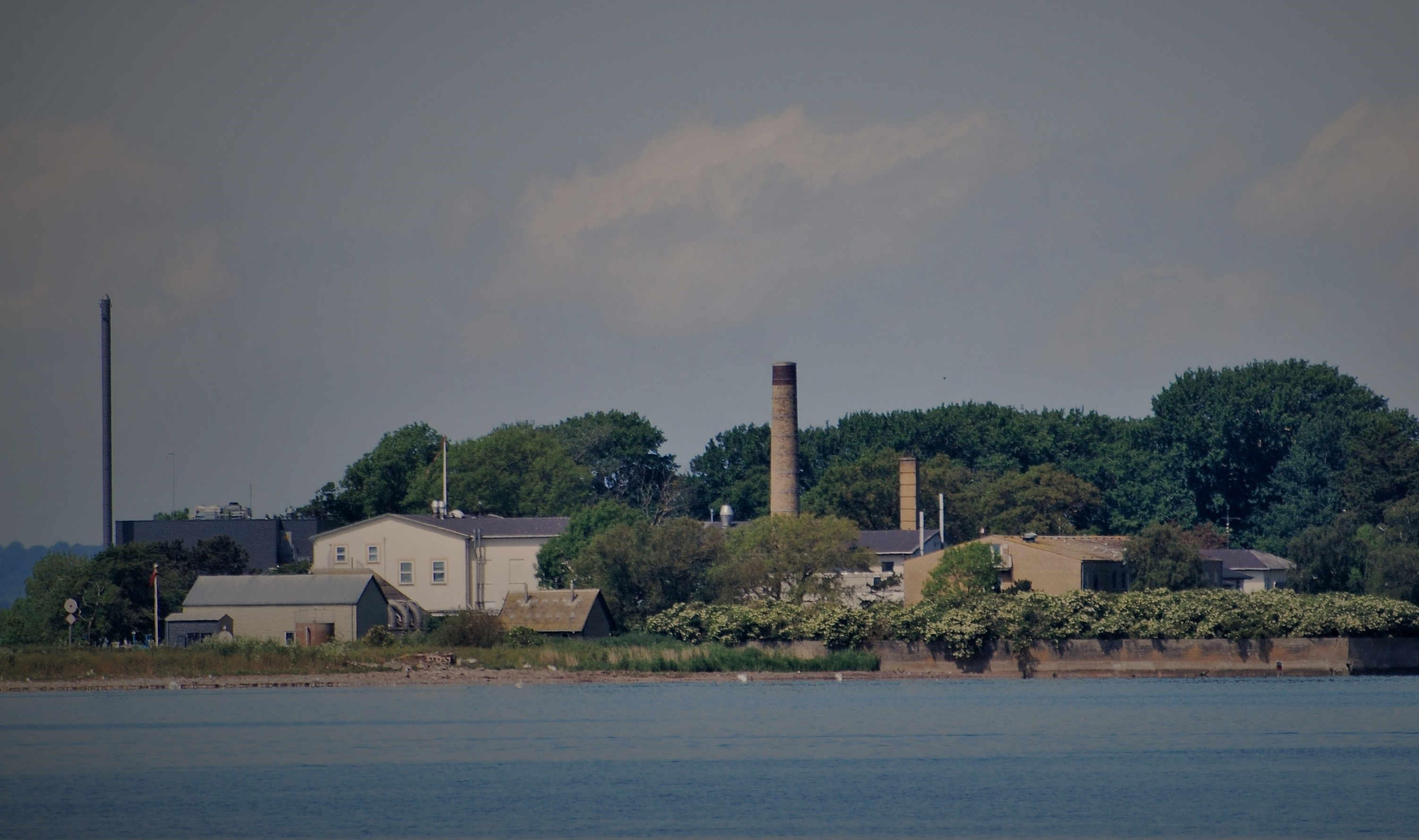 Island Lindholm, Møn, Zealand, Denmark